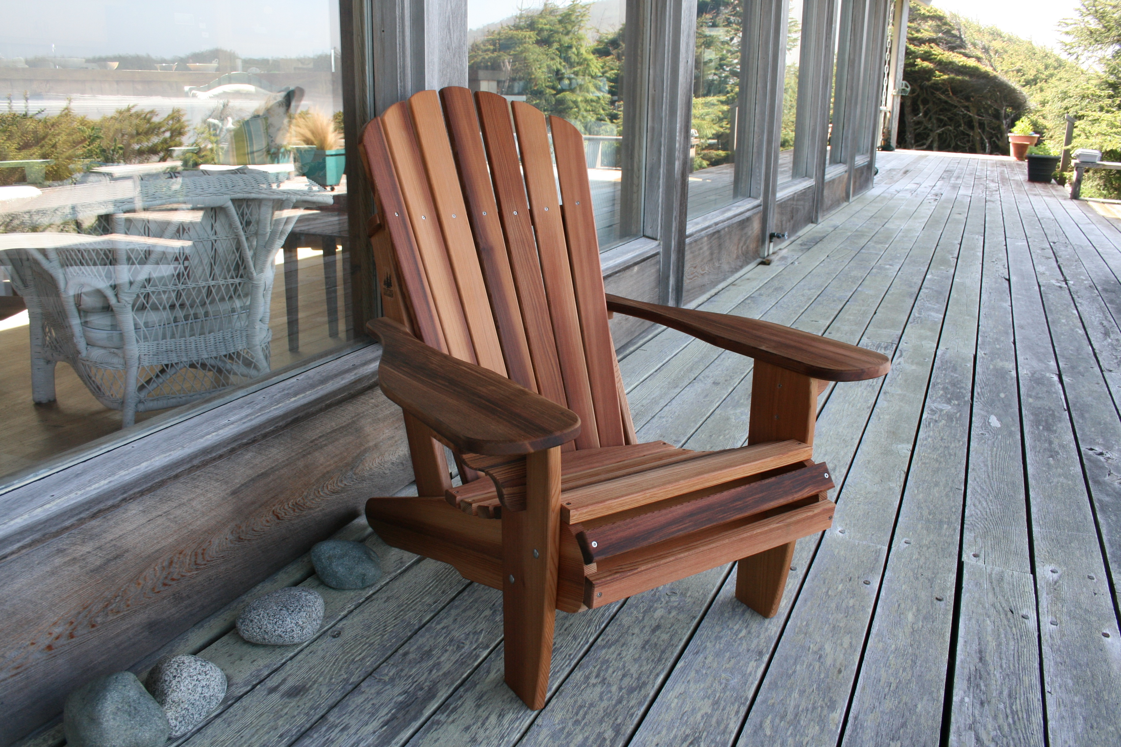 Adirondack Chair on Deck in Tofino